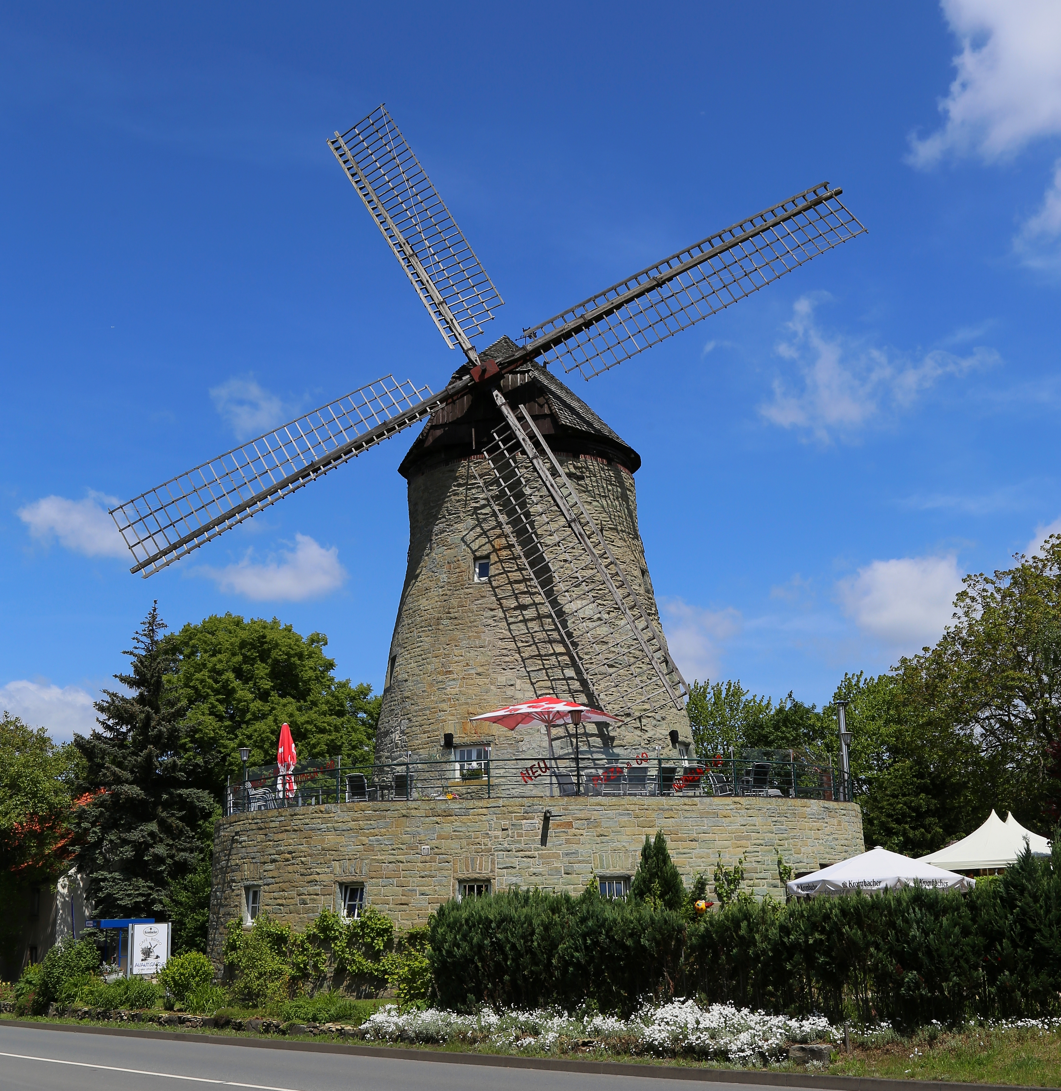 Windmill in Werl, Kreis Soest, North Rhine-Westphalia, Germany. The mill is now converted to the Bistro Avantgarde.